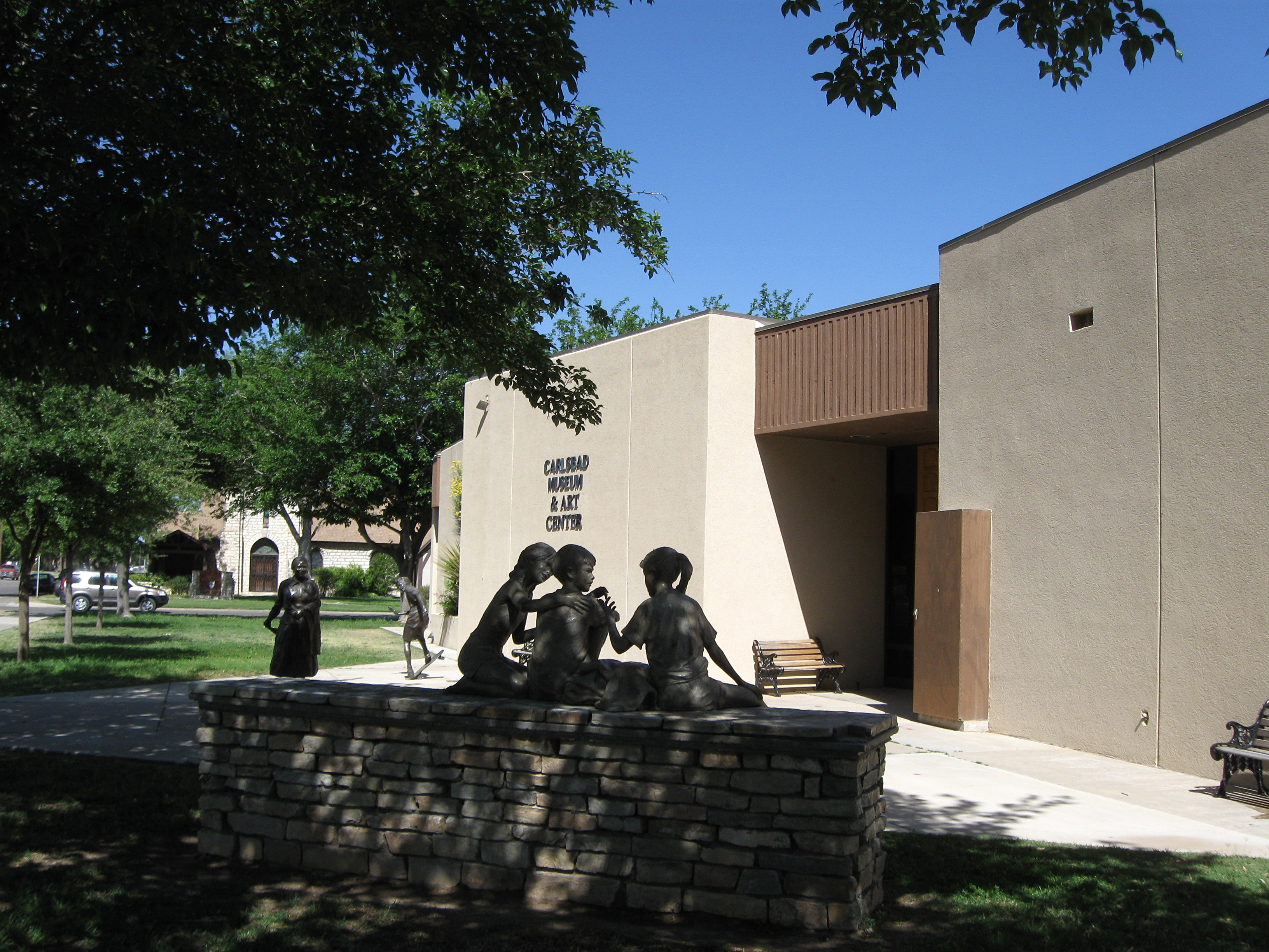 Carlsbad Museum & Art Center, located at 418 West Fox Street in Carlsbad, New Mexico.